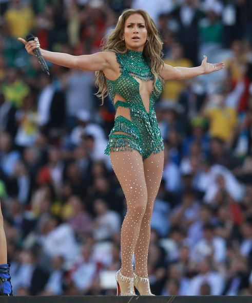 Jennifer Lopez at the FIFA World Cup 2014 opening ceremony